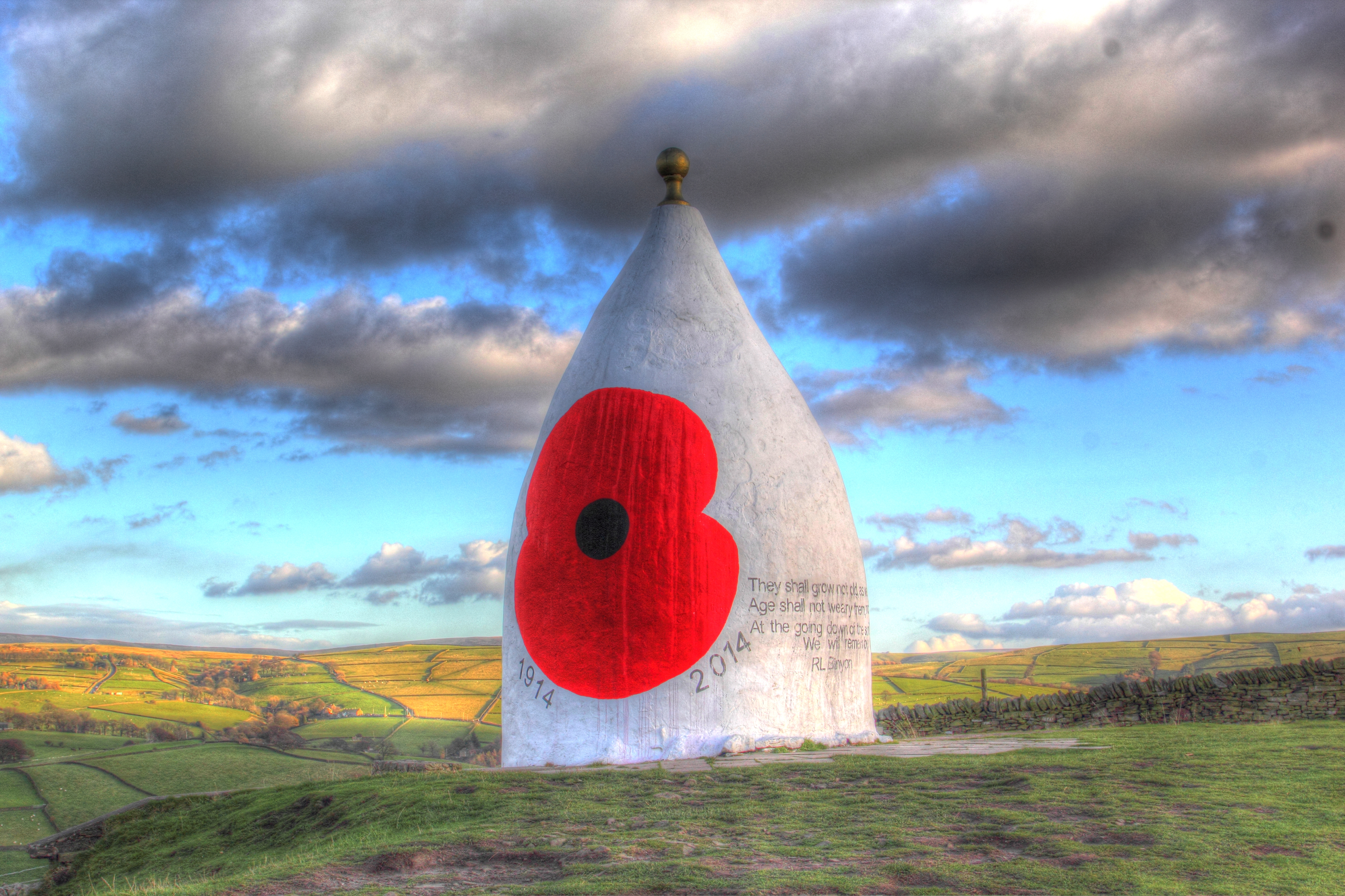 White Nancy in Poppy Livery